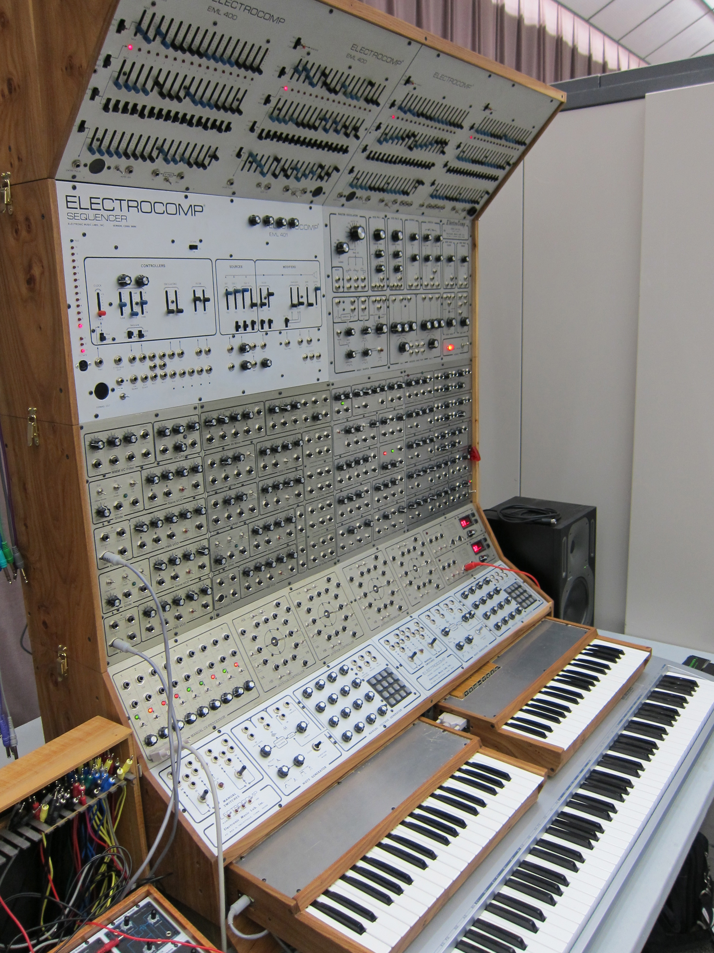 EML ElectroComp modular synthesizer with sequencer. Custom built by George Mattson top to bottom, left to right 4× ElectroComp EML 400 (sequencer) 1× ElectroComp EML 401 Sequencer (synthesizer expander) 1× ElectroComp EML-200 (synthesizer expander) George Mattson modules George Mattson controllers (Manual CV Processor, Joystick Controllers, MIDI/CV Processor, etc.) 2× ElectroComp EML-300 (controller: Manual Switches, Note Generator, Manual Voltage Generator (numeric sequencer with 4x4 keypad)) 2× unknown 37key keyboard controller 1× unknown MIDI keyboard controller